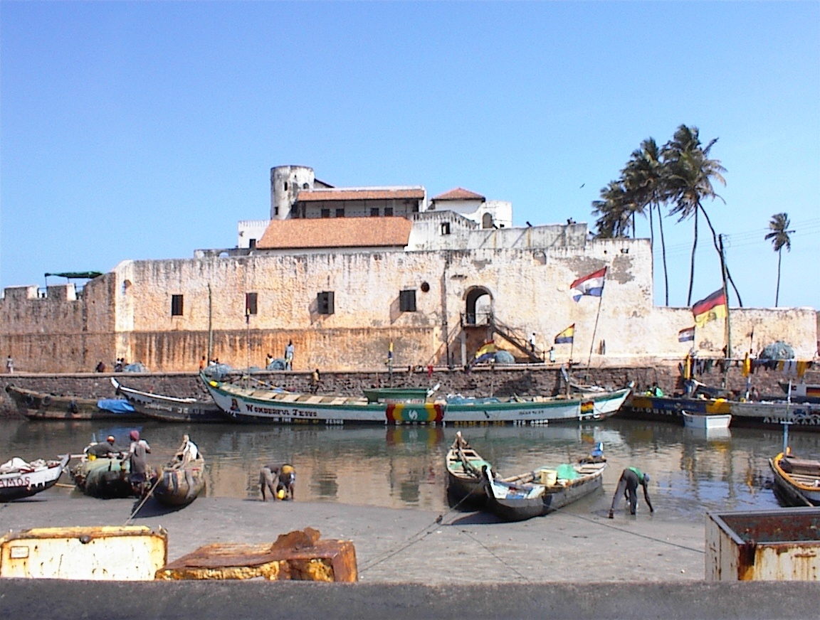 Elmina Castle, or St. George’s Castle in Elmina, Ghana (Fall, 2003).